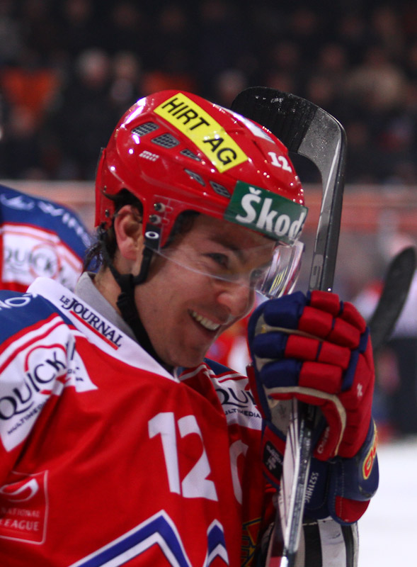 Mathieu Tschantré, Swiss Icehockey Player